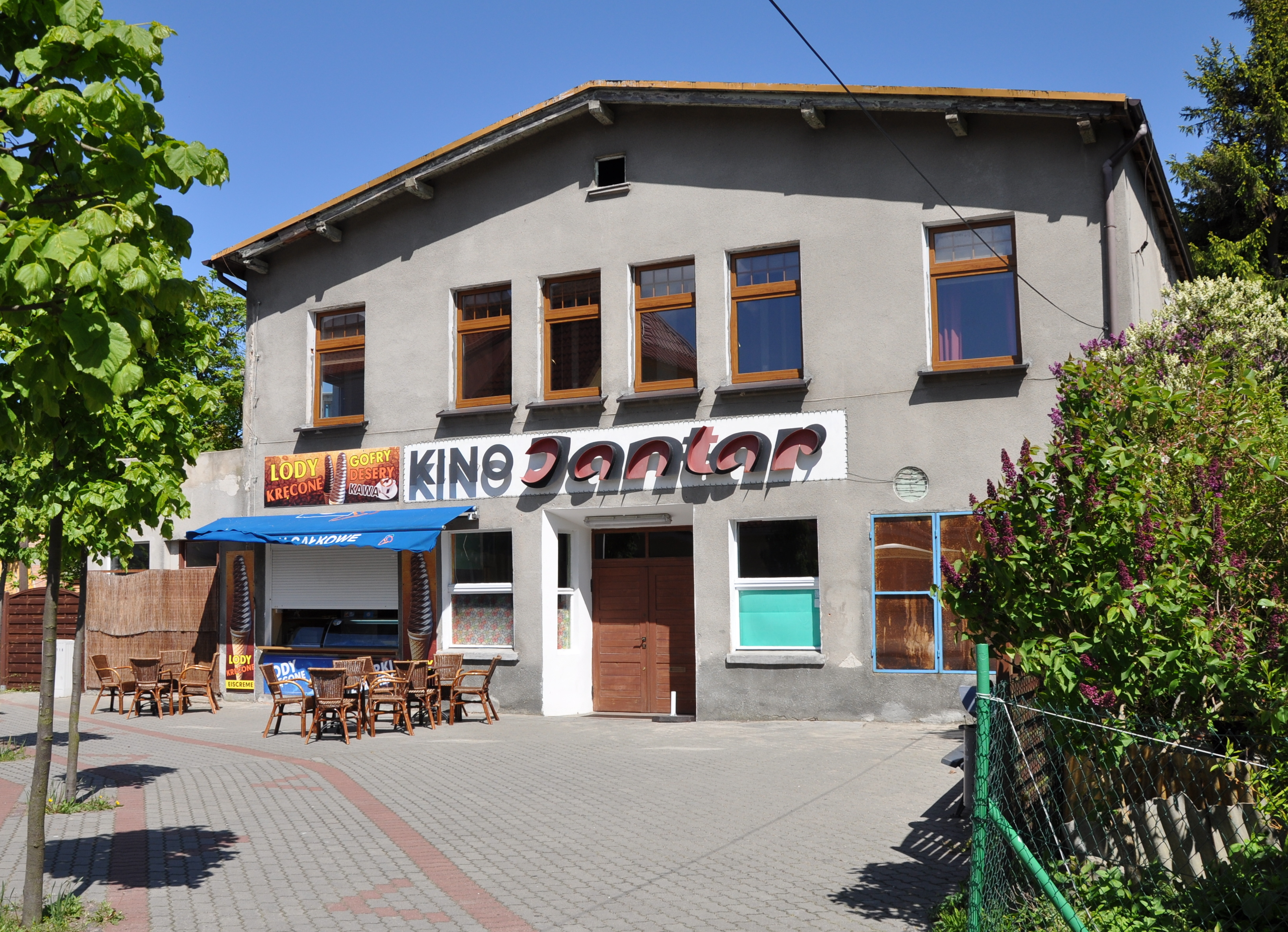 Jantar Cinema in Mrzeżyno, Poland